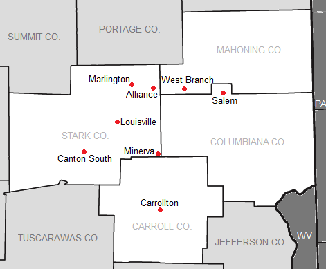 Map of NBC members beginning with the 2011-12 school year. Self-modified to show school locations.